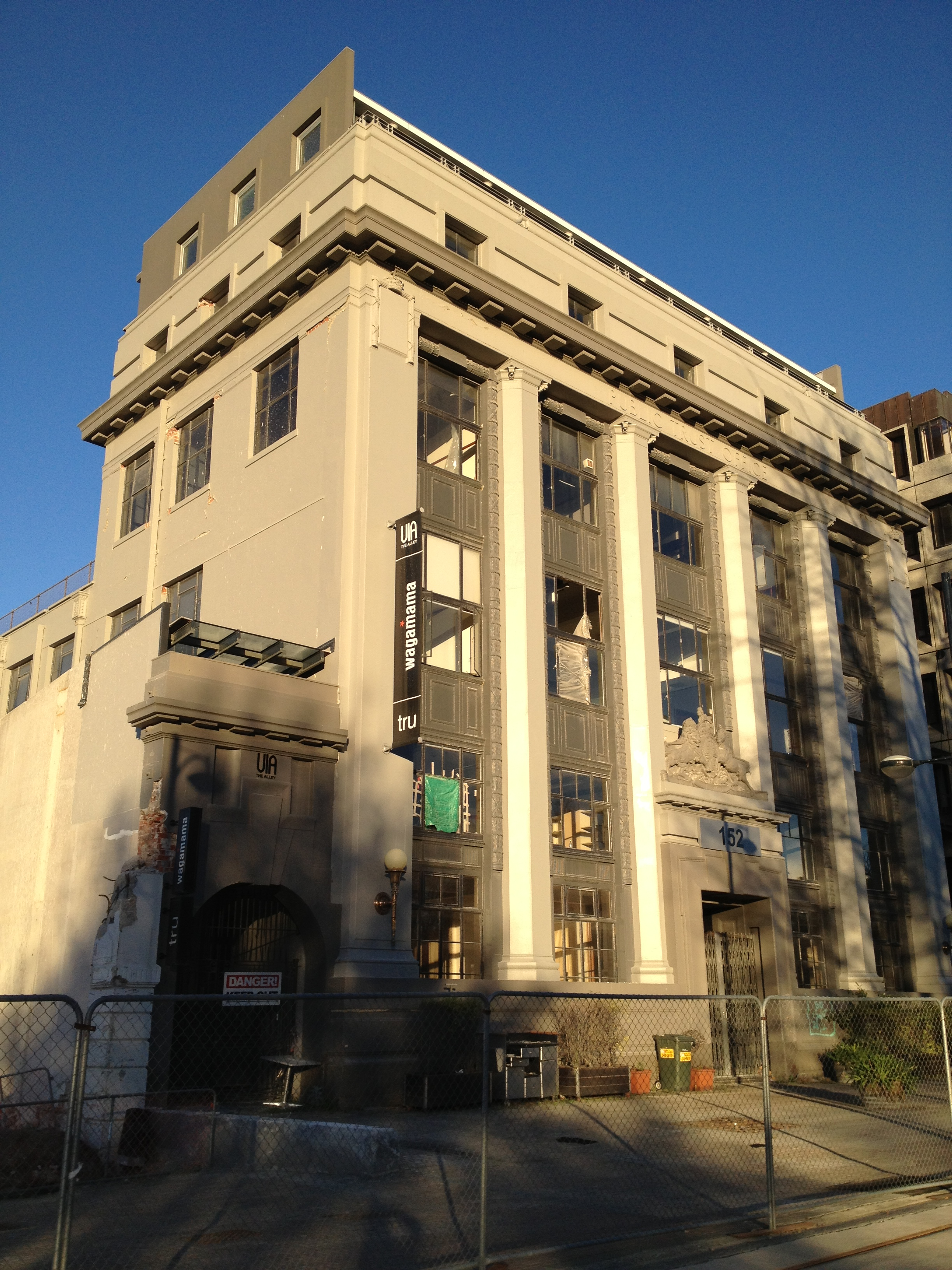 Public Trust Office Building in Christchurch in May 2013.